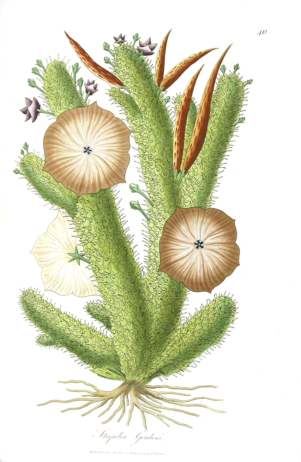 Stapelia gordonii Masson is a synonym of Hoodia gordonii (Masson) Sweet ex Decne.